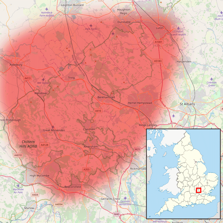 Map showing the approximate distribution of Glis-glis in south-east England, an invasive species introduced in the early 20th century, now considered a pest